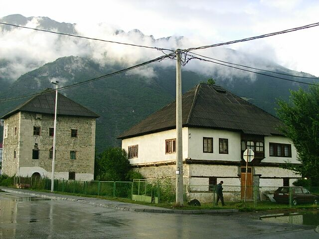 Town of Gusinje on the eastern edge of Montenegro